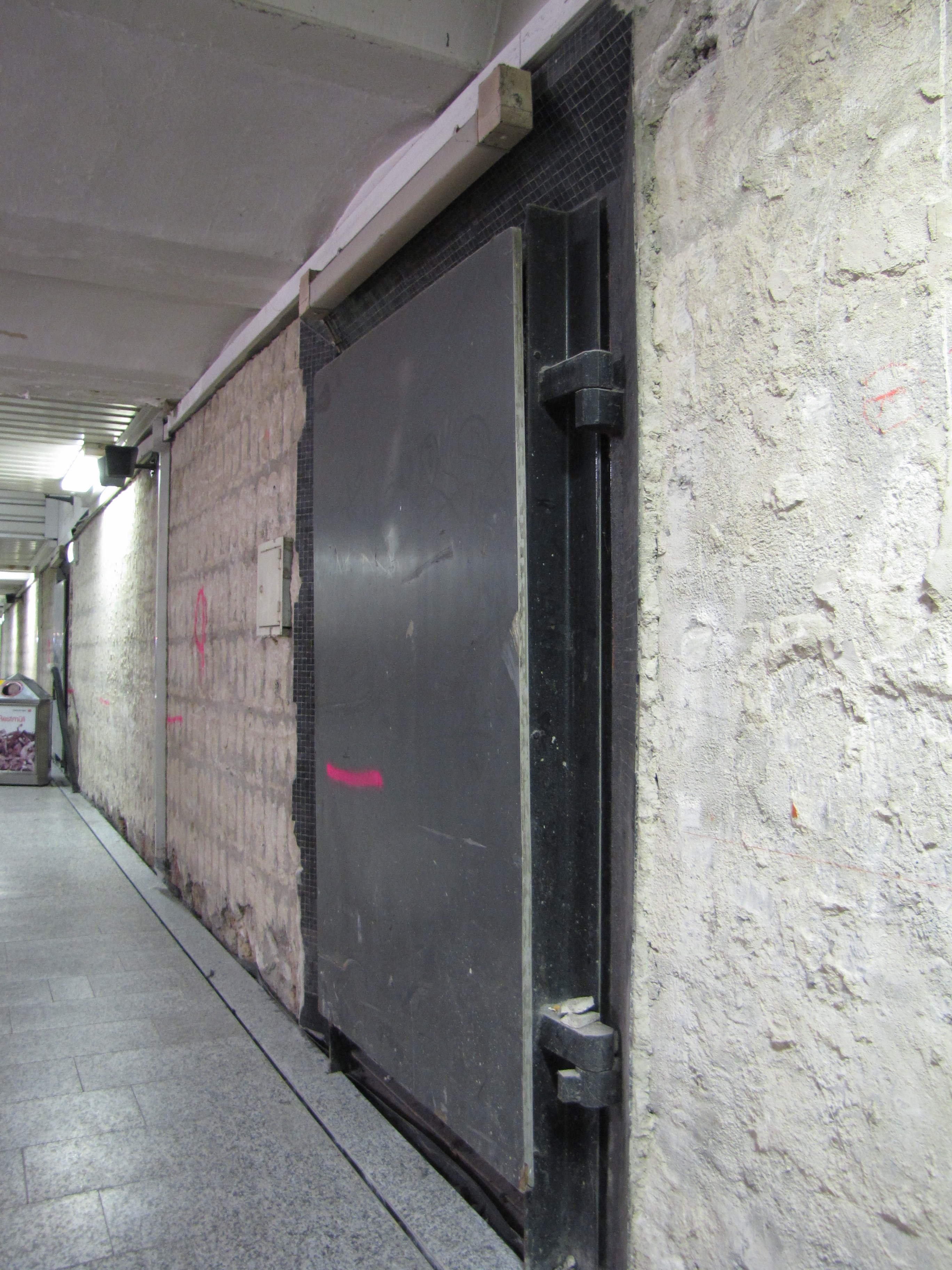 Door of de Münster Central Station's Bunker